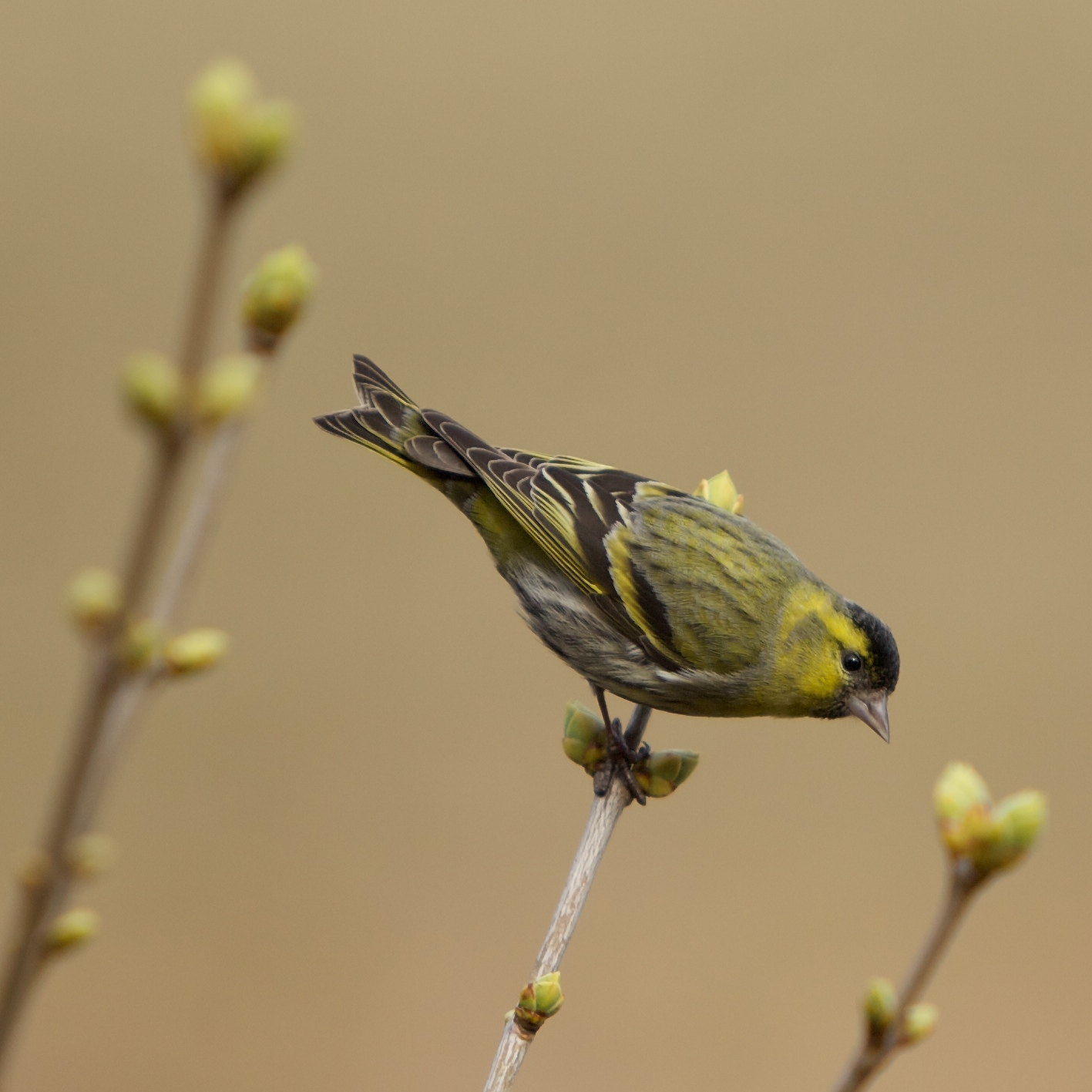 Eurasian Siskin (also called European Siskin) in Norway. View On Black